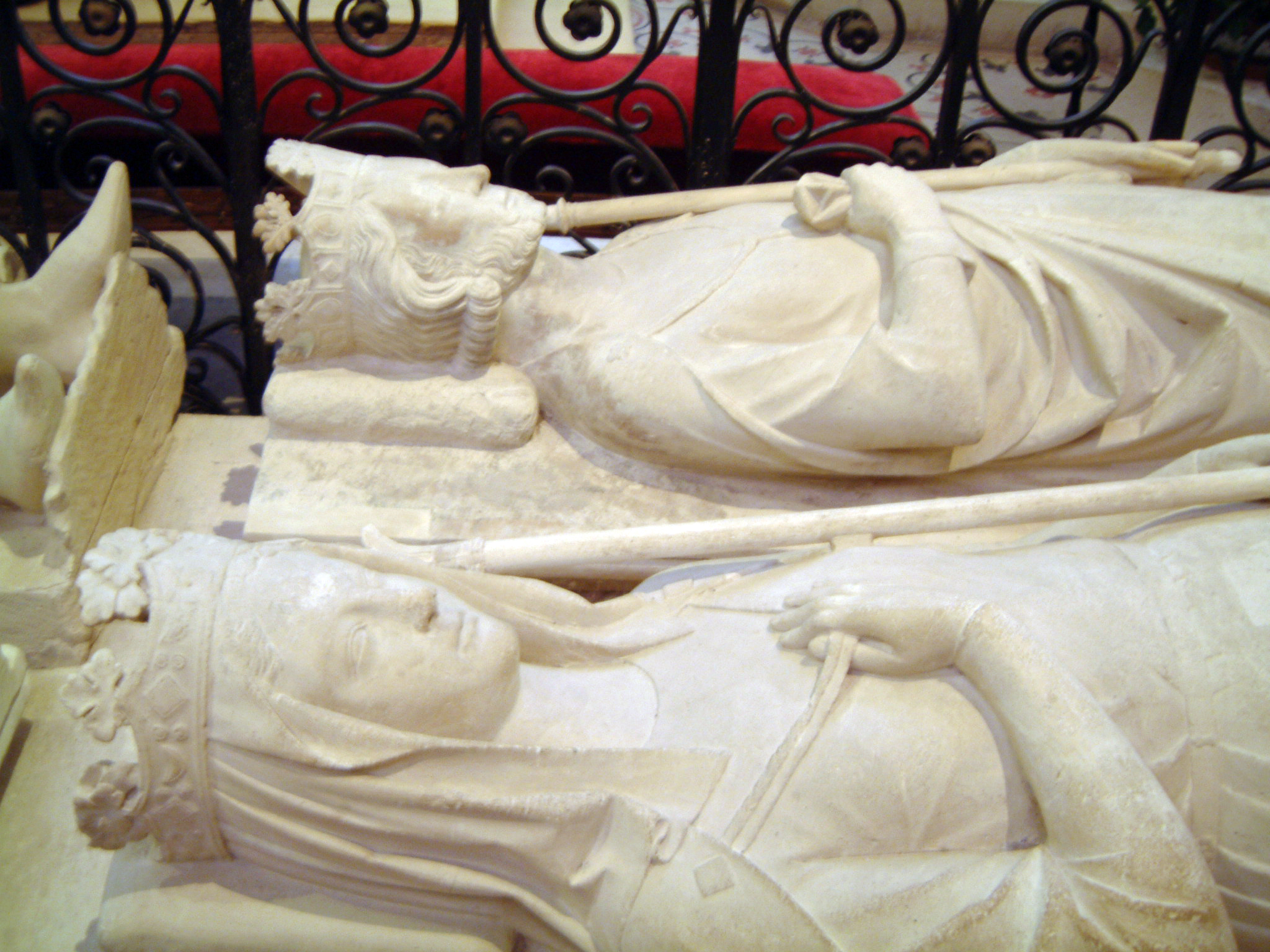 Tomb of Pippin the Short and Bertrada at St. Denis by Paris